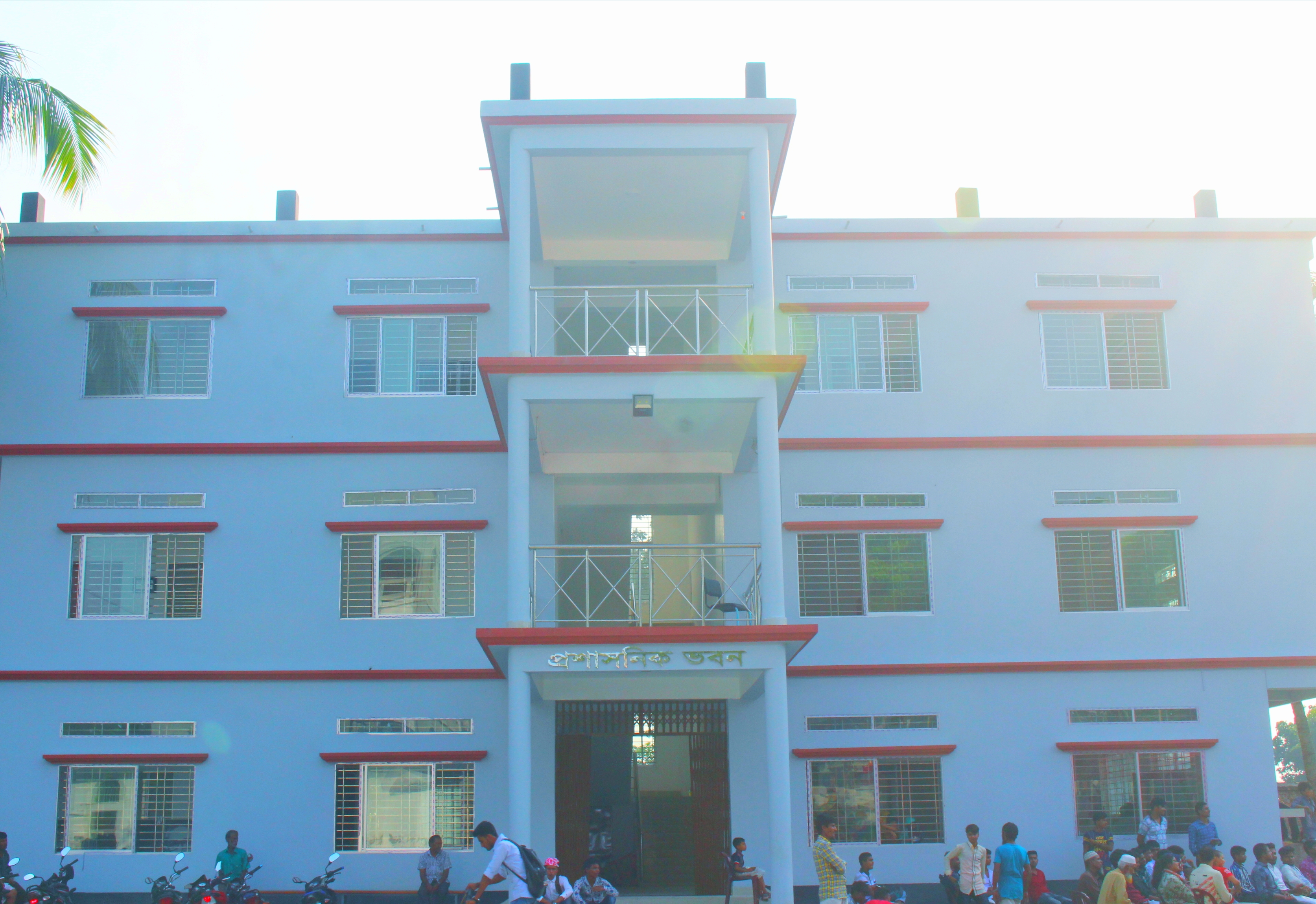 Dighapotia College ( Administrative buildin)